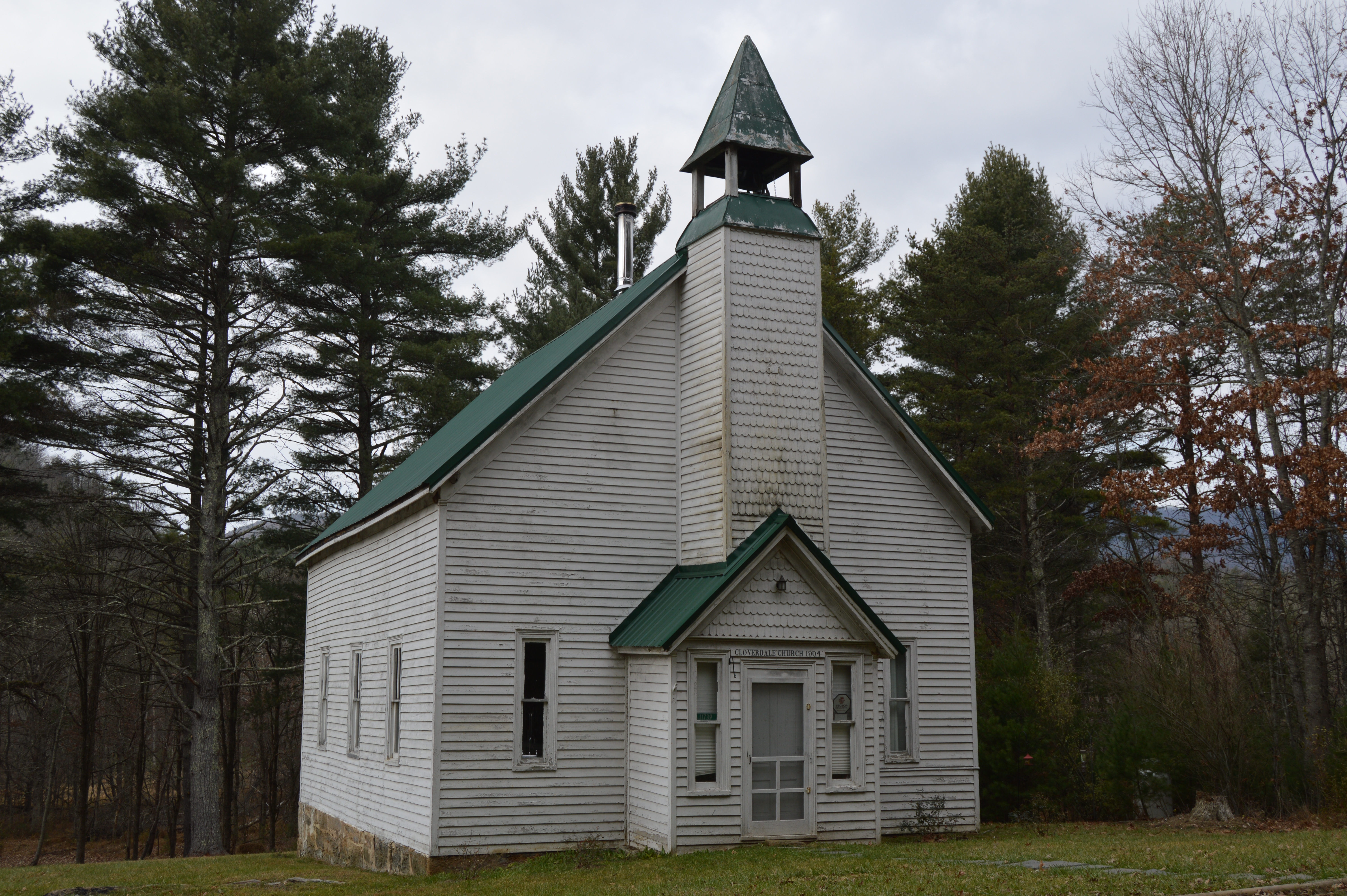 Front and southwestern side of the Cloverdale Presbyterian Church, located on Deerfield Road at Armstrong in Bath County, Virginia, United States.